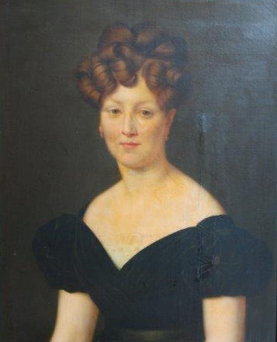 Mme Elisa Dumoustier (1800-1872), épouse Goüin